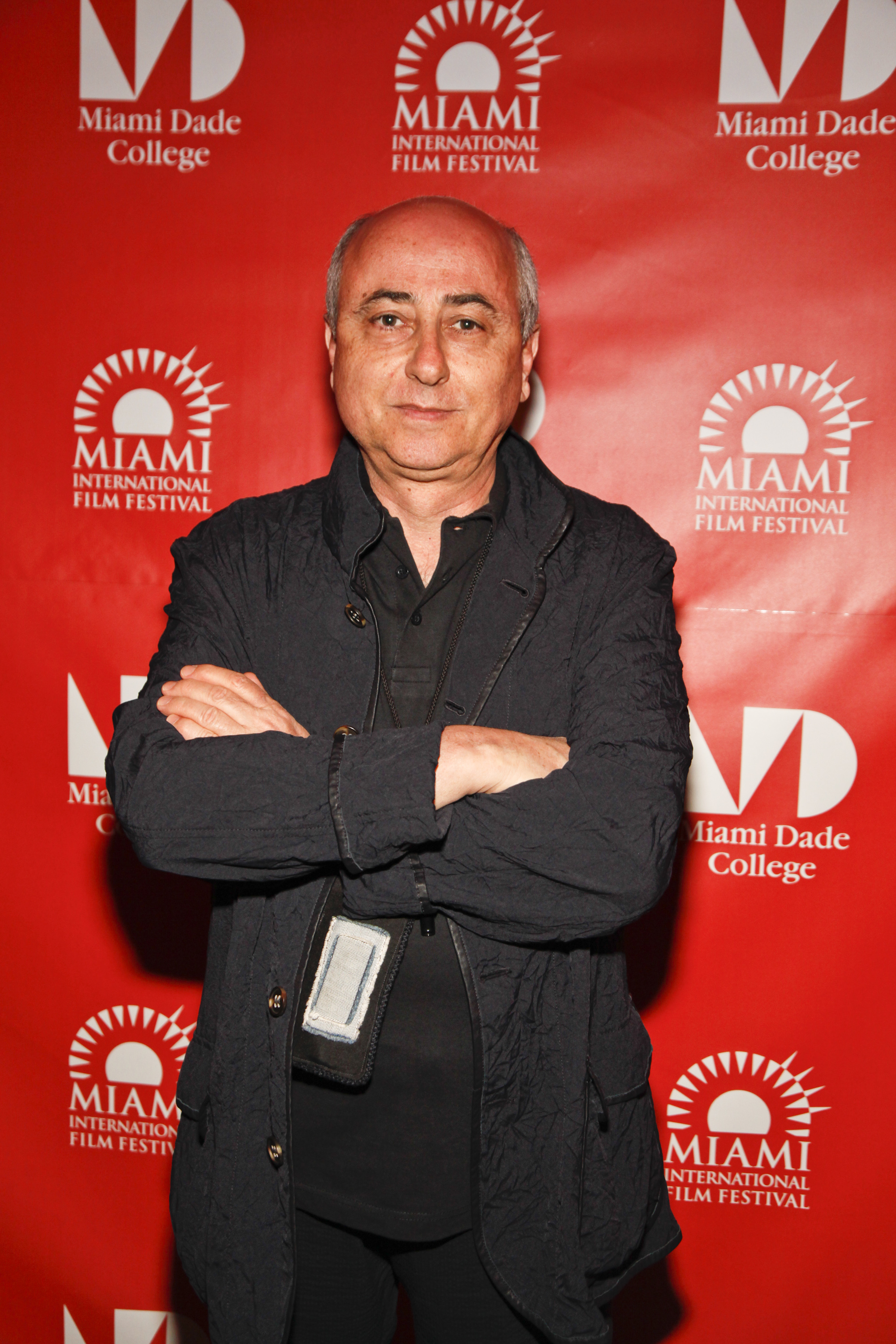 Director Roberto Faenza at the 2012 Miami International Film Festival presentation of SOMEDAY THIS PAIN WILL BE USEFUL TO YOU (Un giorno questo dolore ti sarà utile) red carpet at Olympia Theater at the Gusman Center for the Performing Arts